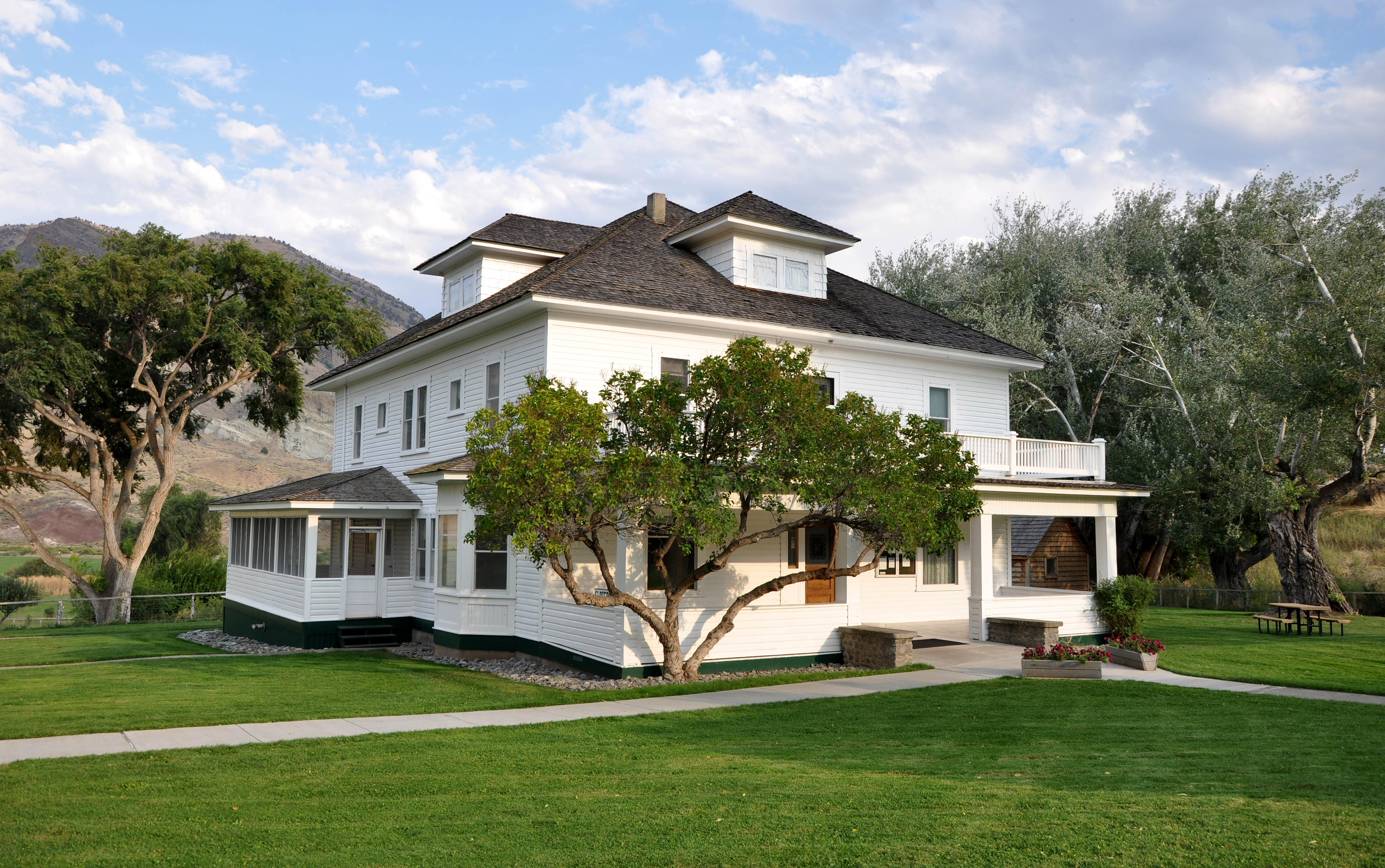 The Cant Ranch House in the James Cant Ranch Historic District in the U.S. state of Oregon. The district is part of the Sheep Rock Unit of the John Day Fossil Beds National Monument.